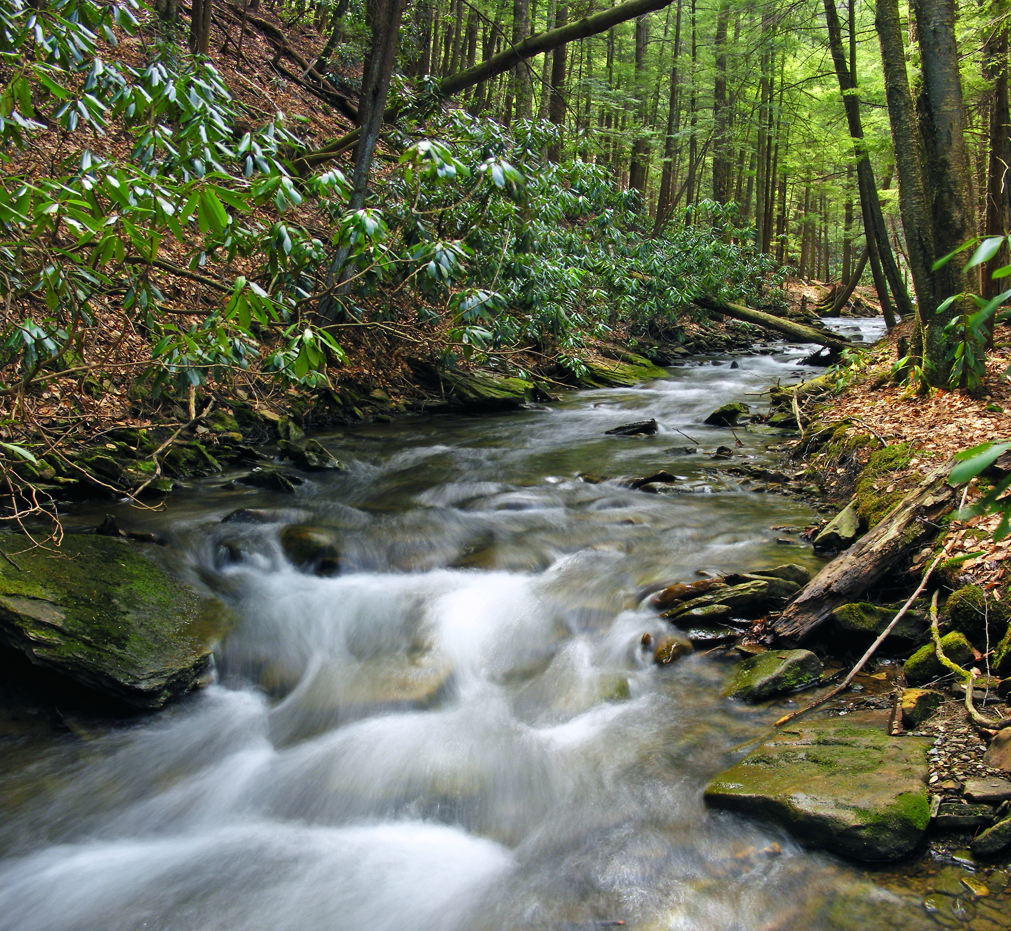 Wykoff Run, Elk State Forest, Cameron County. Dense rhododendron and thick stands of hemlocks account for the abundance of green. Most deciduous trees in the area are just beginning to bud.